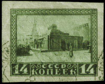 Soviet stamp of 14 kopecks, 1925. Lenin's Mausoleum. Work of V. V. Zavyalov & R. G. Zariņš.